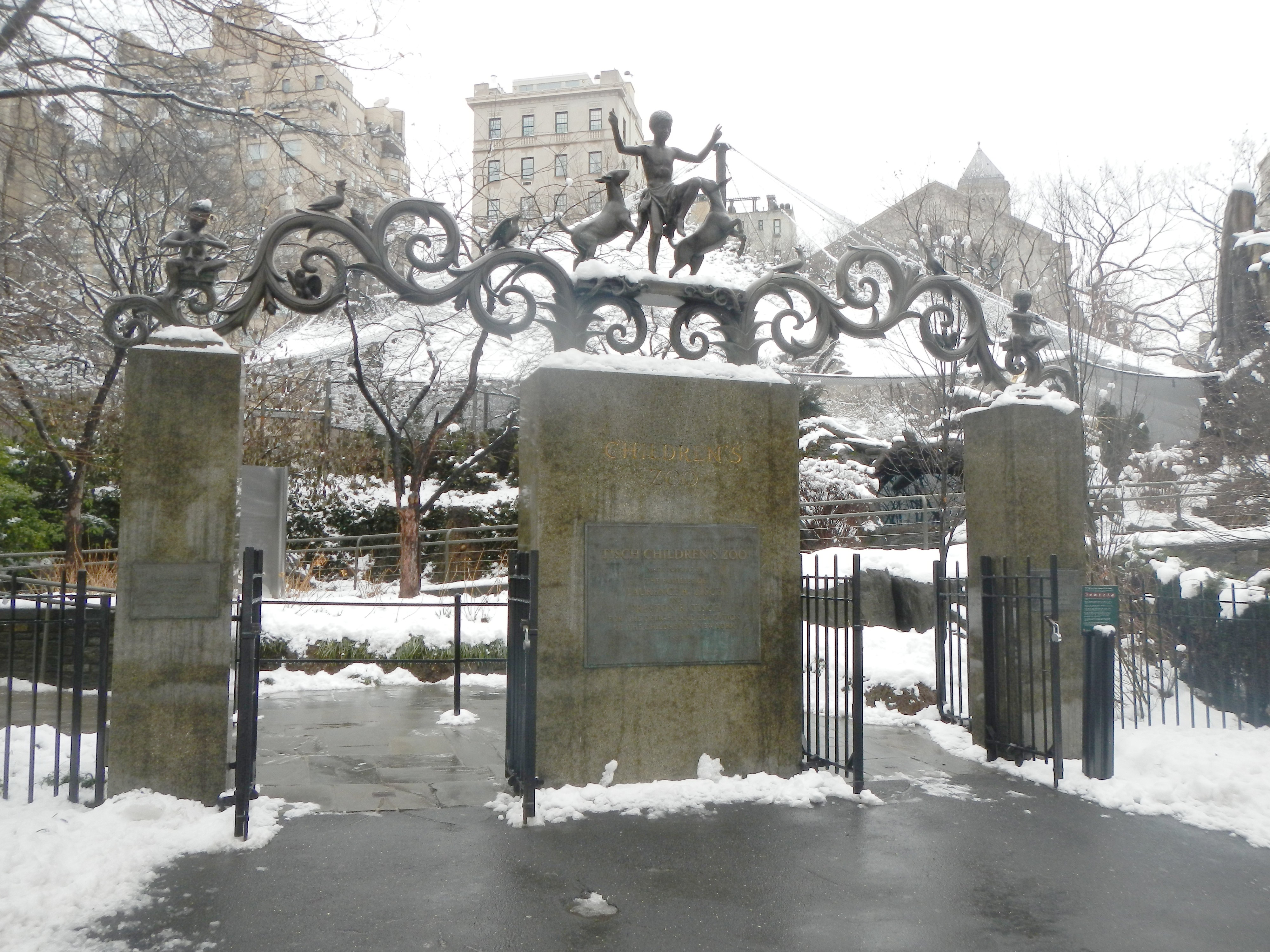 Looking east at Children's Zoo gates after snowfall.